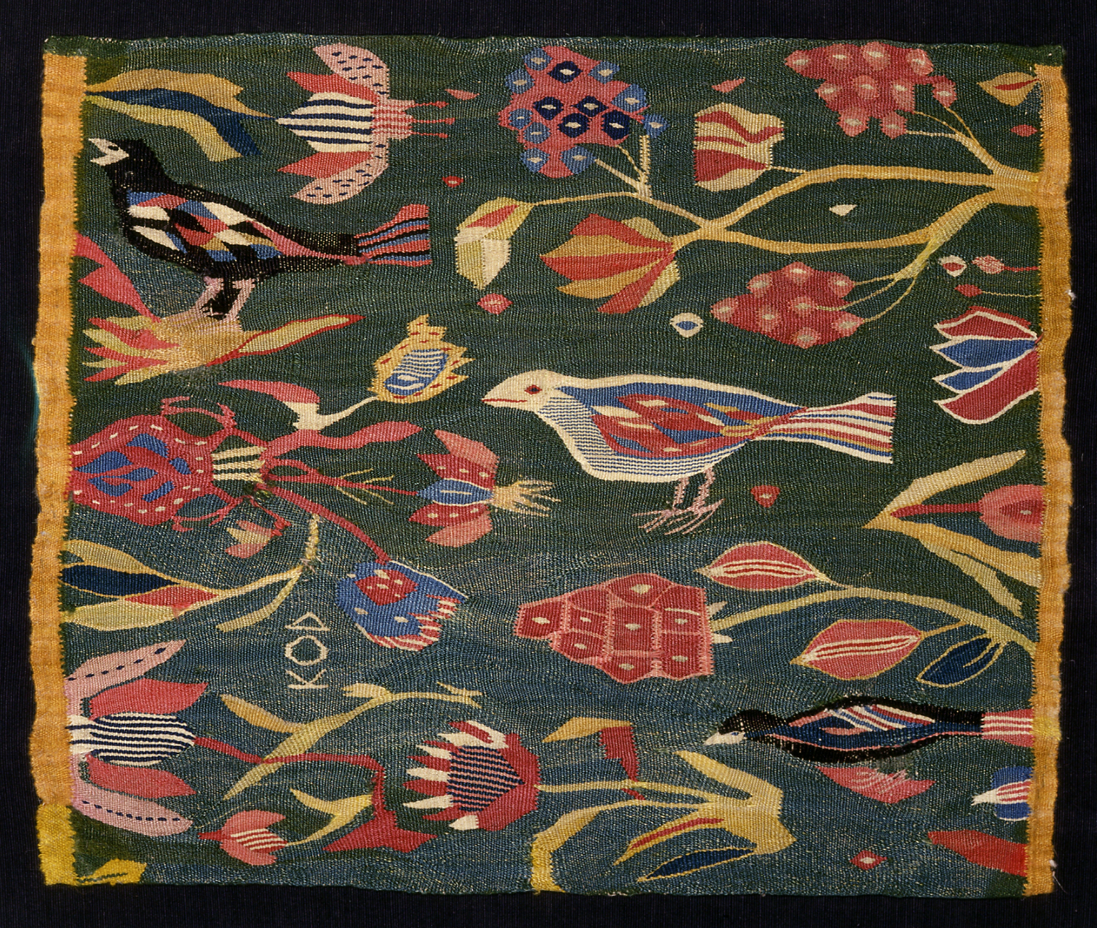 Part of Seat or Carriage Cushion Cover (Birds and Vines). Dove-tail tapestry Accession number SW 93. Torna or Bara district, Scania, Sweden Late 18th century. 52 x 45 cm. From the Khalili Collection of Swedish Textiles